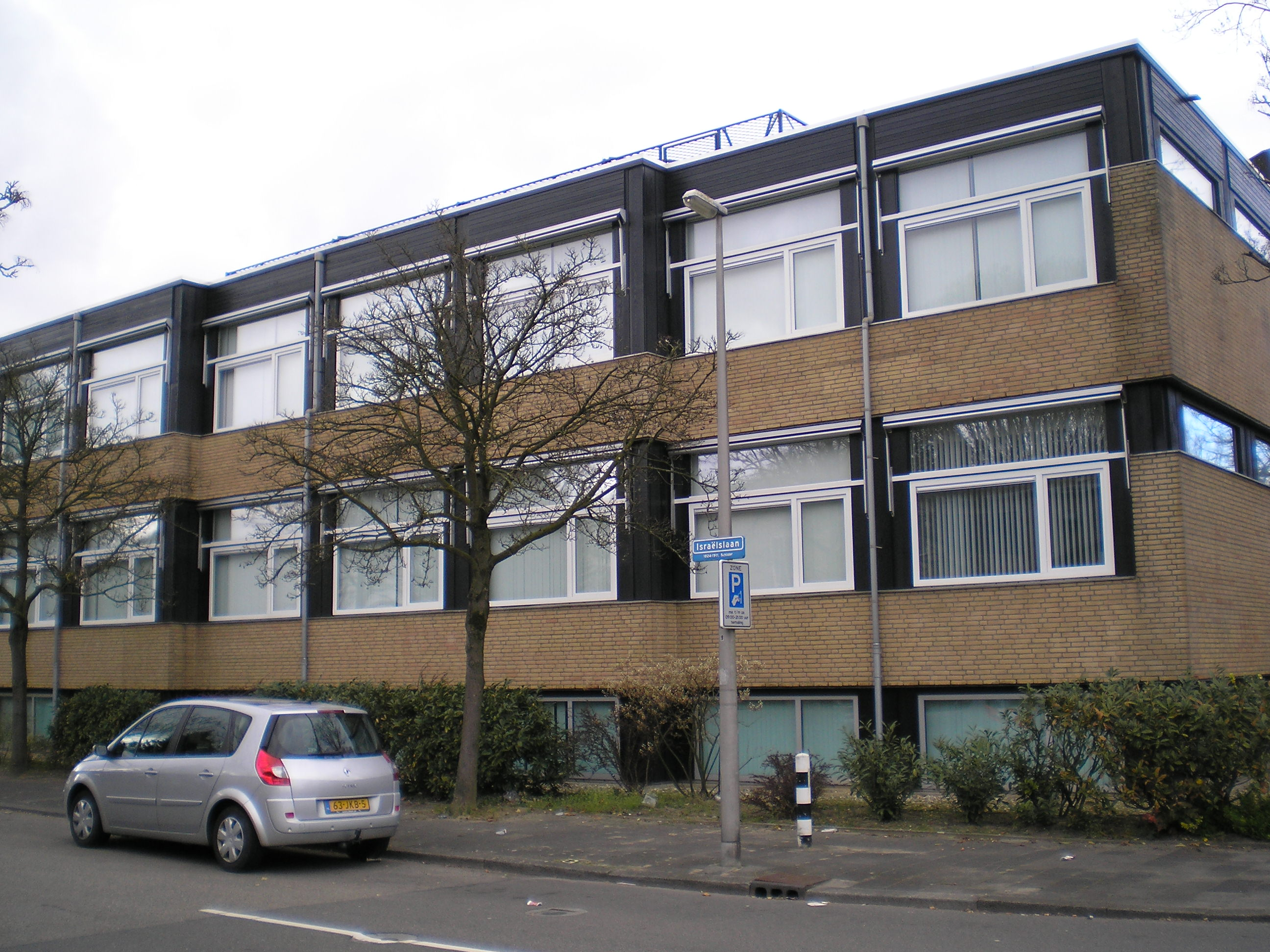 Israëlslaan in Utrecht in the Netherlands